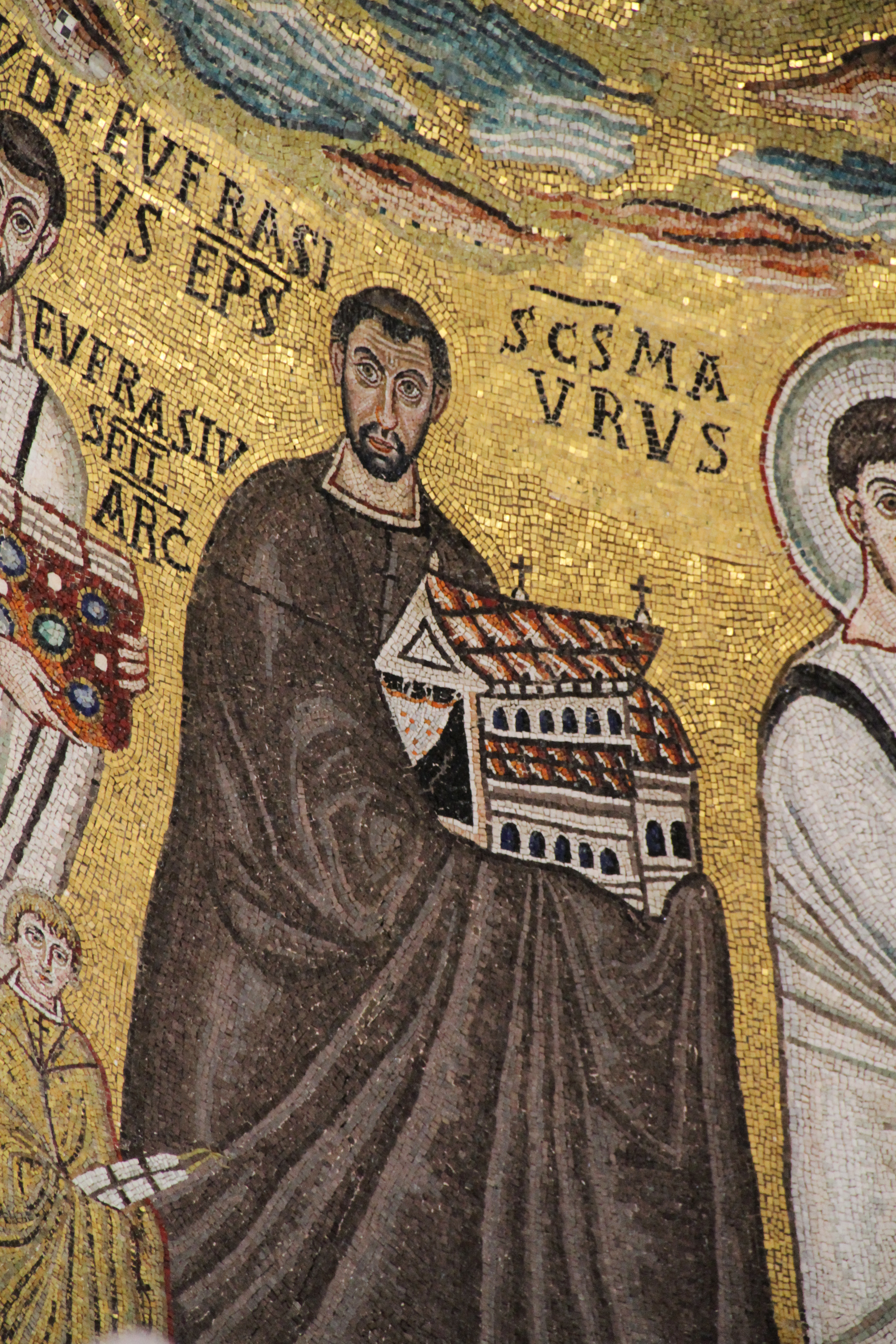 Bishop Euphrasius